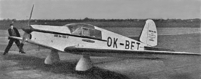 Benes-Mraz Be.550 Bibi, Heston, 1939